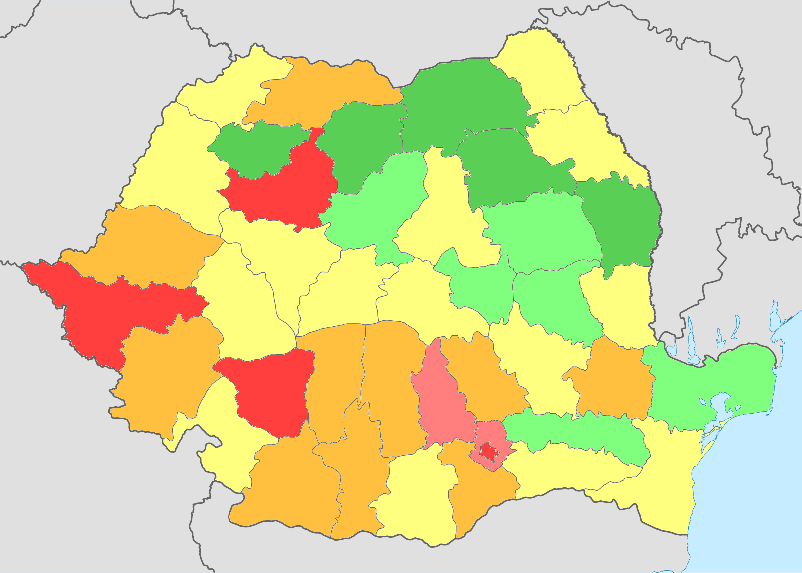 Data is from Eurostat